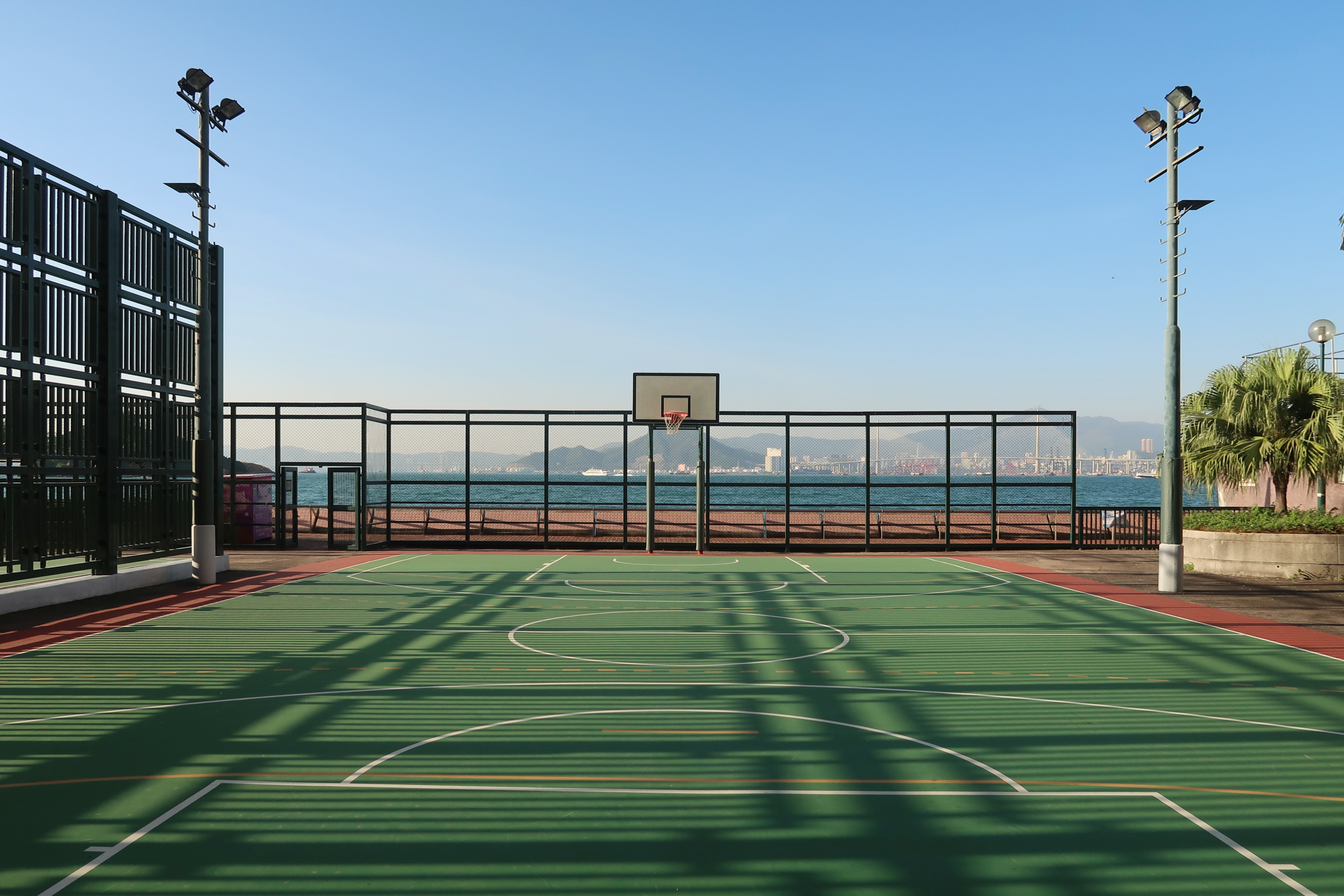 Kennedy Town Temporary Recreation Ground